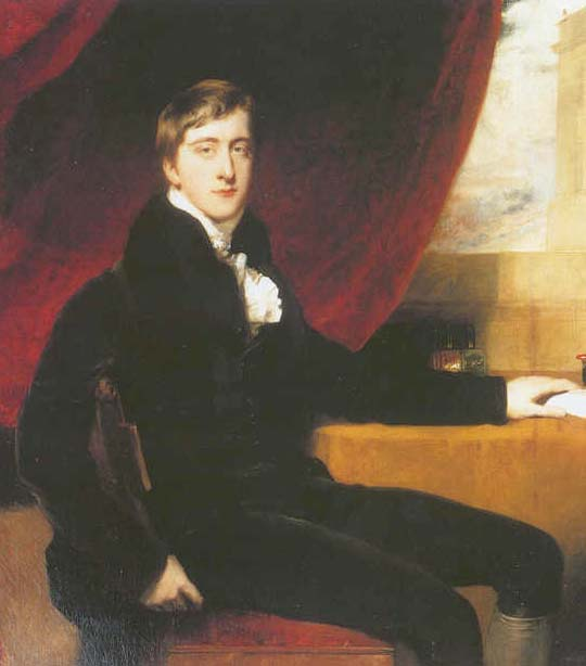 Portrait of William Cavendish, 6th Duke of Devonshire (1790-1858)